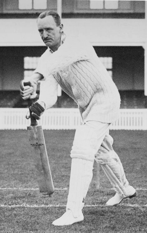 Warwickshire cricketer, Jack Parsons, circa April 1924.